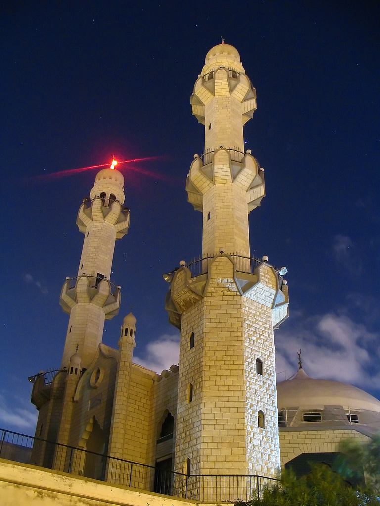 Kababir Mosque on the Carmel Mt., Haifa, Israel. It was damn frezeing that night- no more then 4 degrees, I guess. I also got dirty looks from people around, thinking I might be asking for trouble so close to the holy place. Was it worth it?